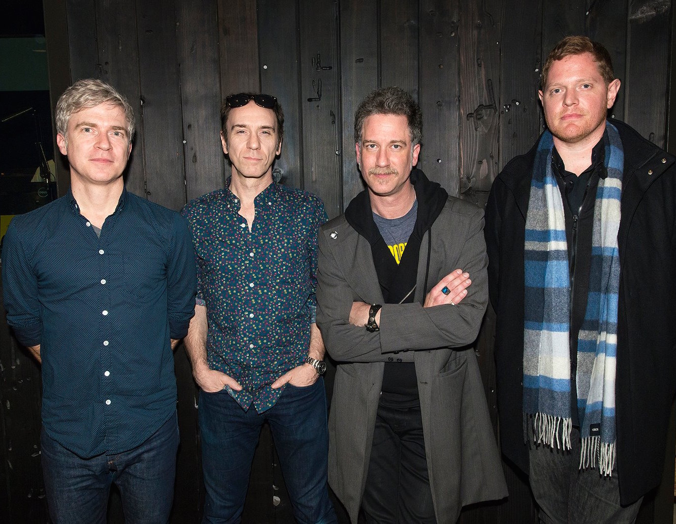 Daniel Brummel (far right) with Nada Surf, 2016